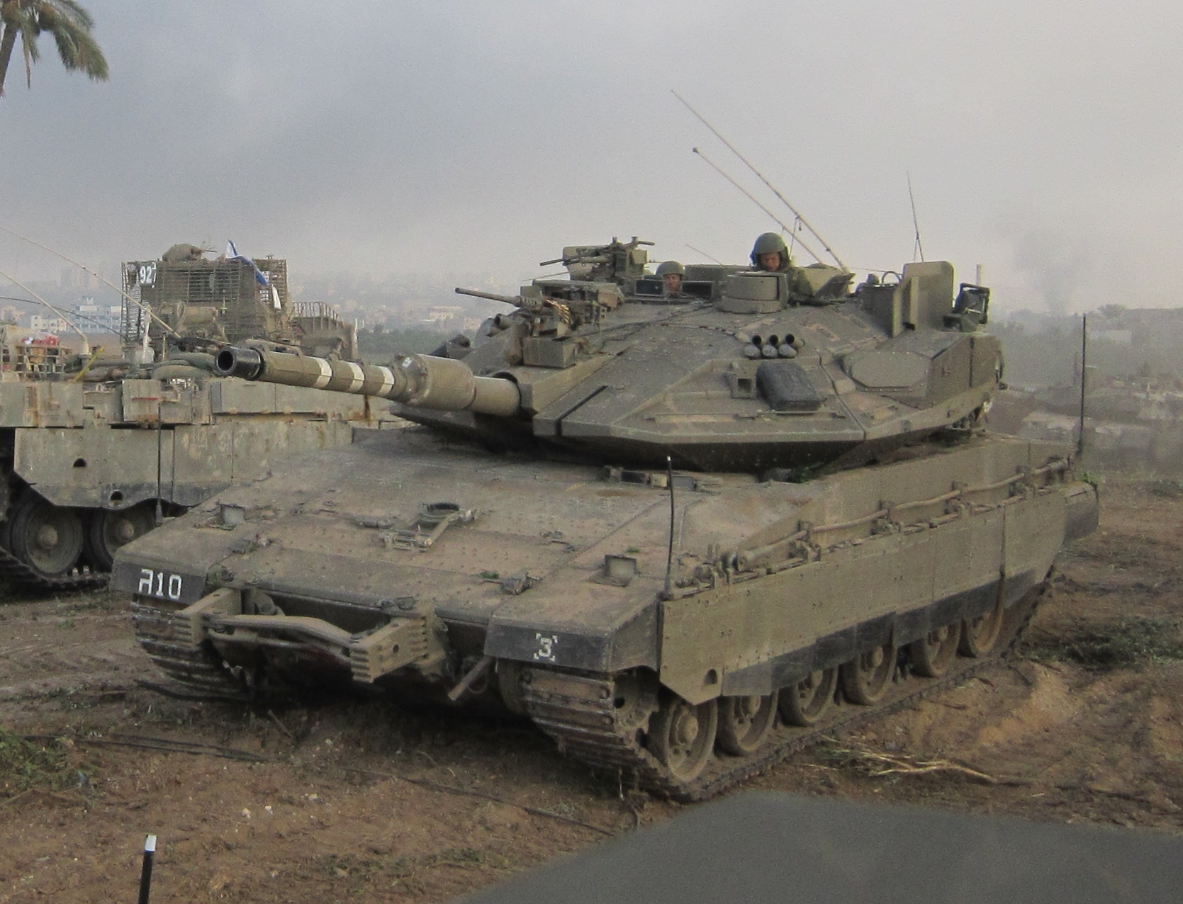 IDF Merkava Mk 4m main battle tank during Operation Protective Edge